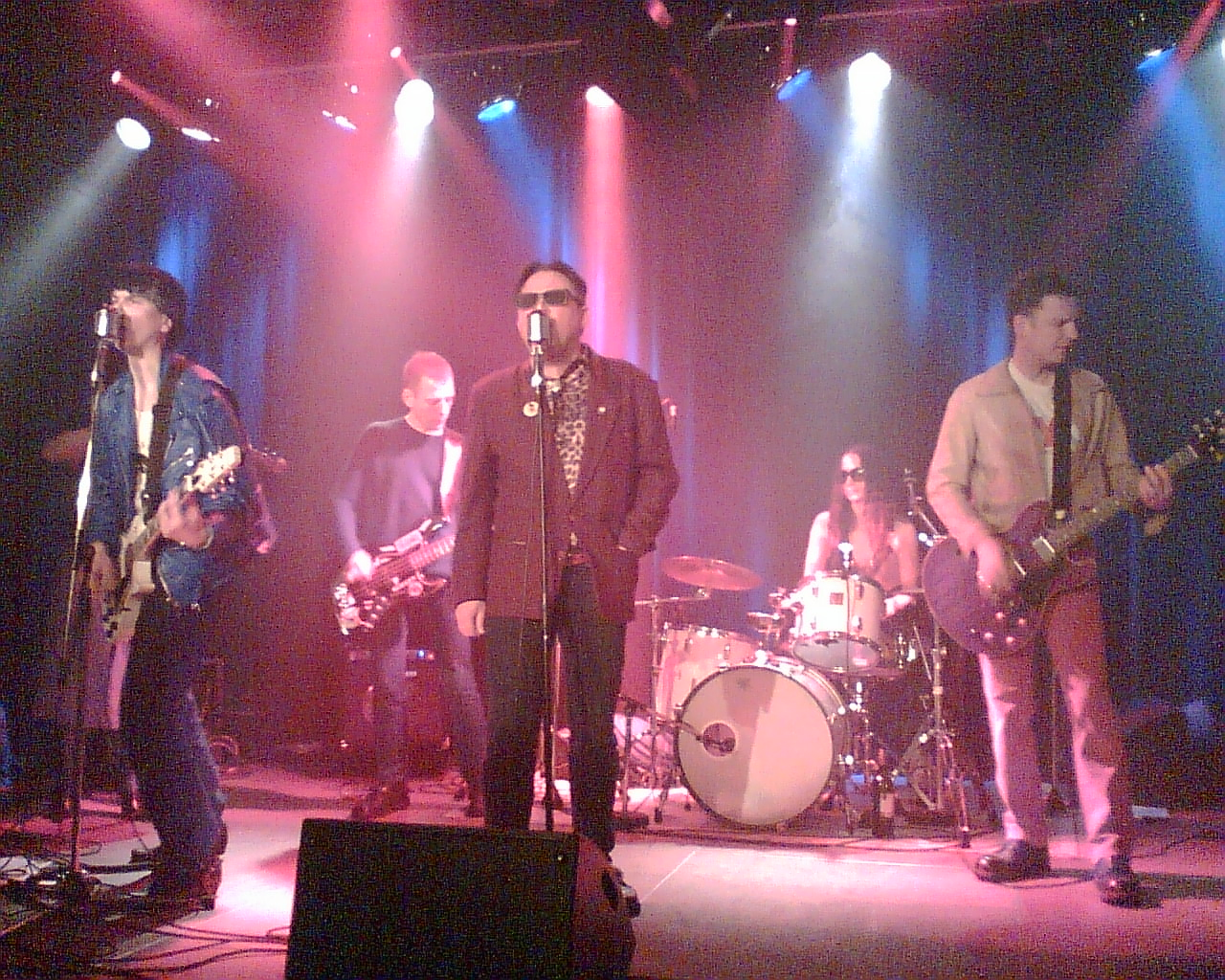 The Flowers of Romance in Tikkurila 2006-02-10.